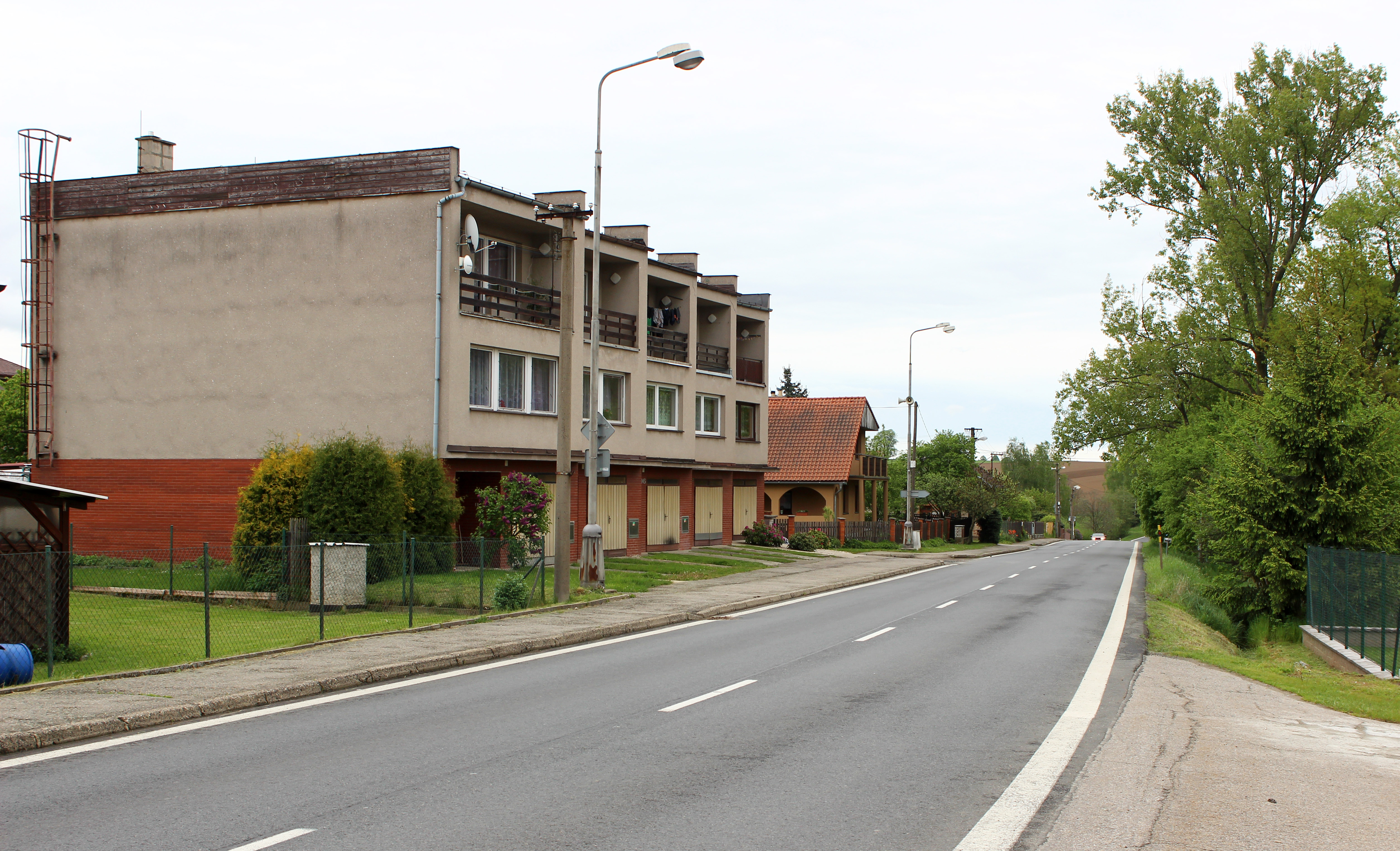 Main straat in Keřkov, part of Přibyslav, Czech Republic